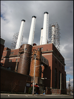 This is an image of a portion of the Glenwood Power Station. This image was made by Robert Swanson.